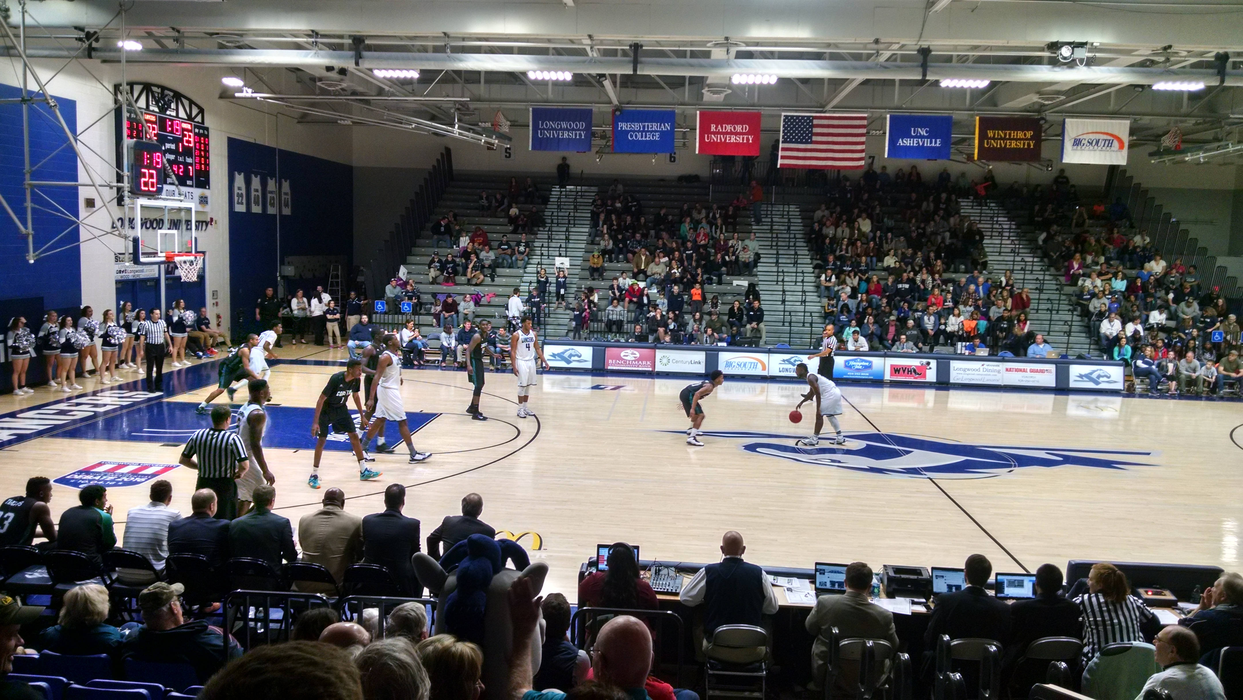 The interior of Willett Hall in Farmville, Virginia in January 2016, during a Longwood Lancers men's basketball game.